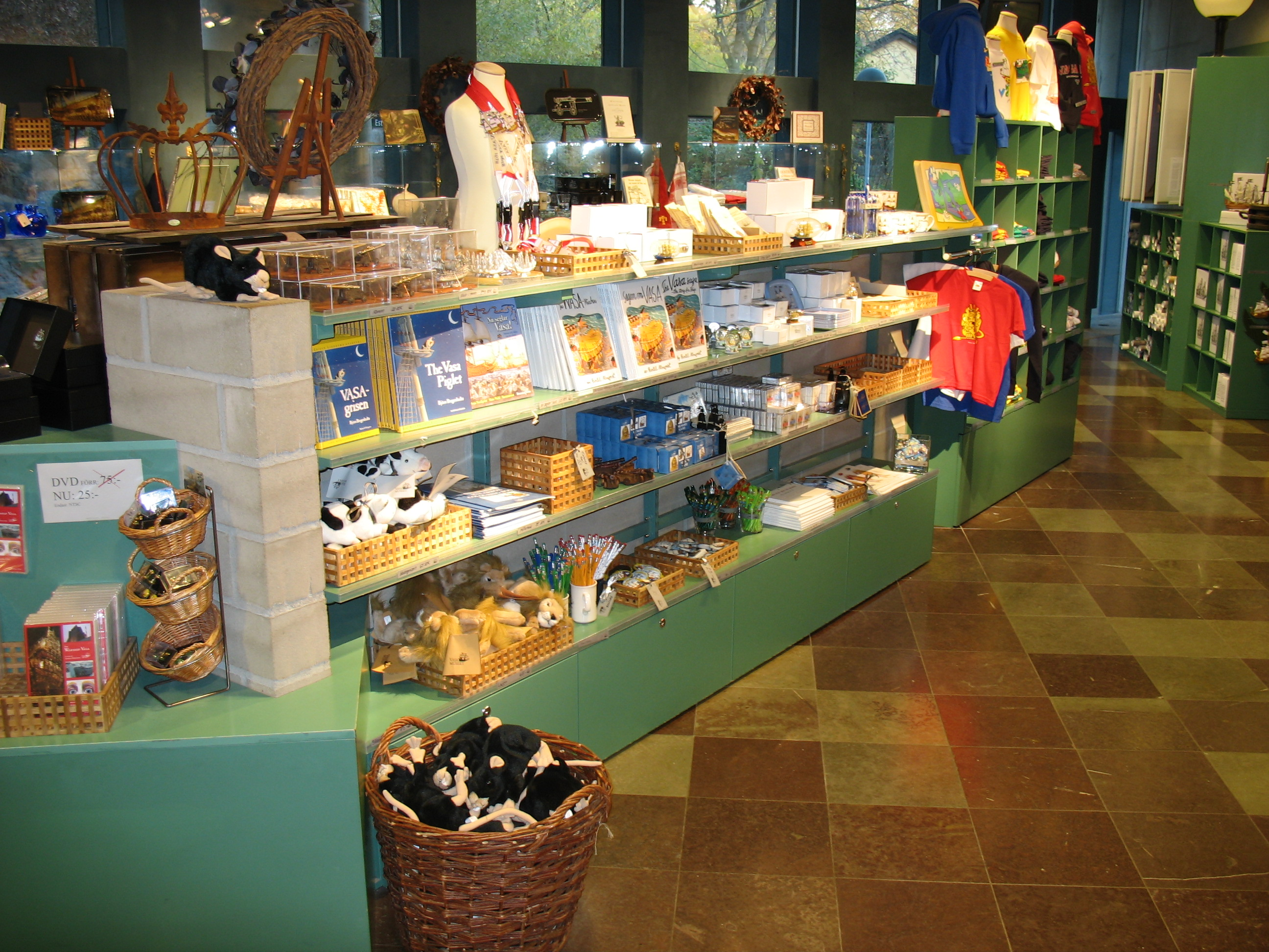 Merchandise based on the Swedish 17th century warship Vasa on sale at the Vasa Museum gift shop.